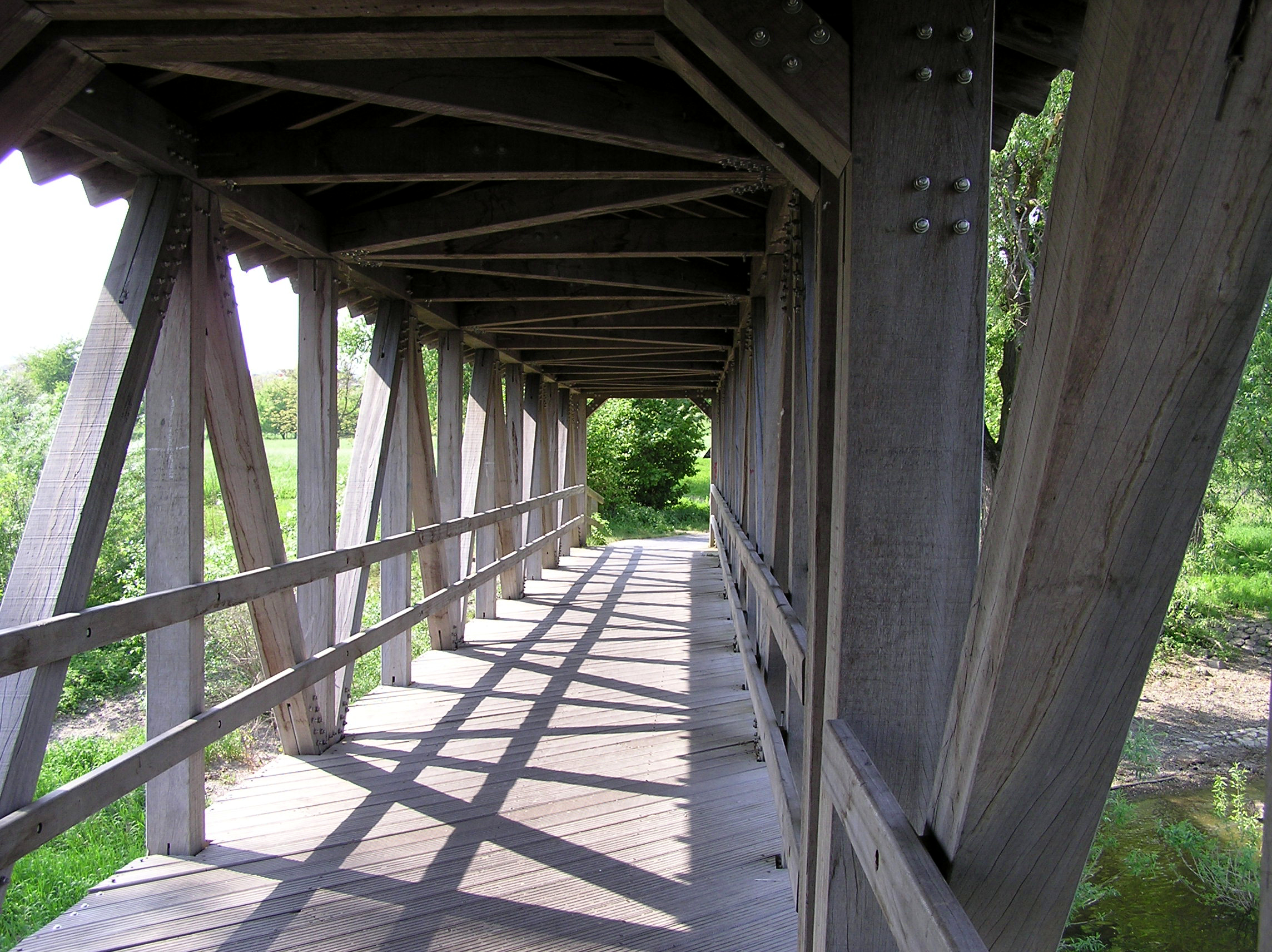 A wooden bridge crossing the German river Ahr just before it meets the Rhine.